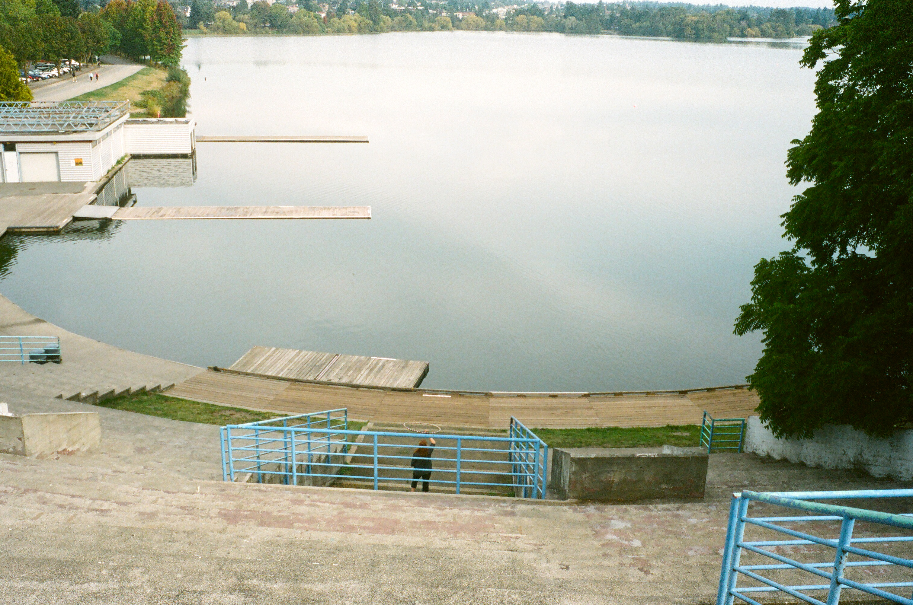 The former Green Lake Aqua Theater, Green Lake Park, Seattle, Washington.